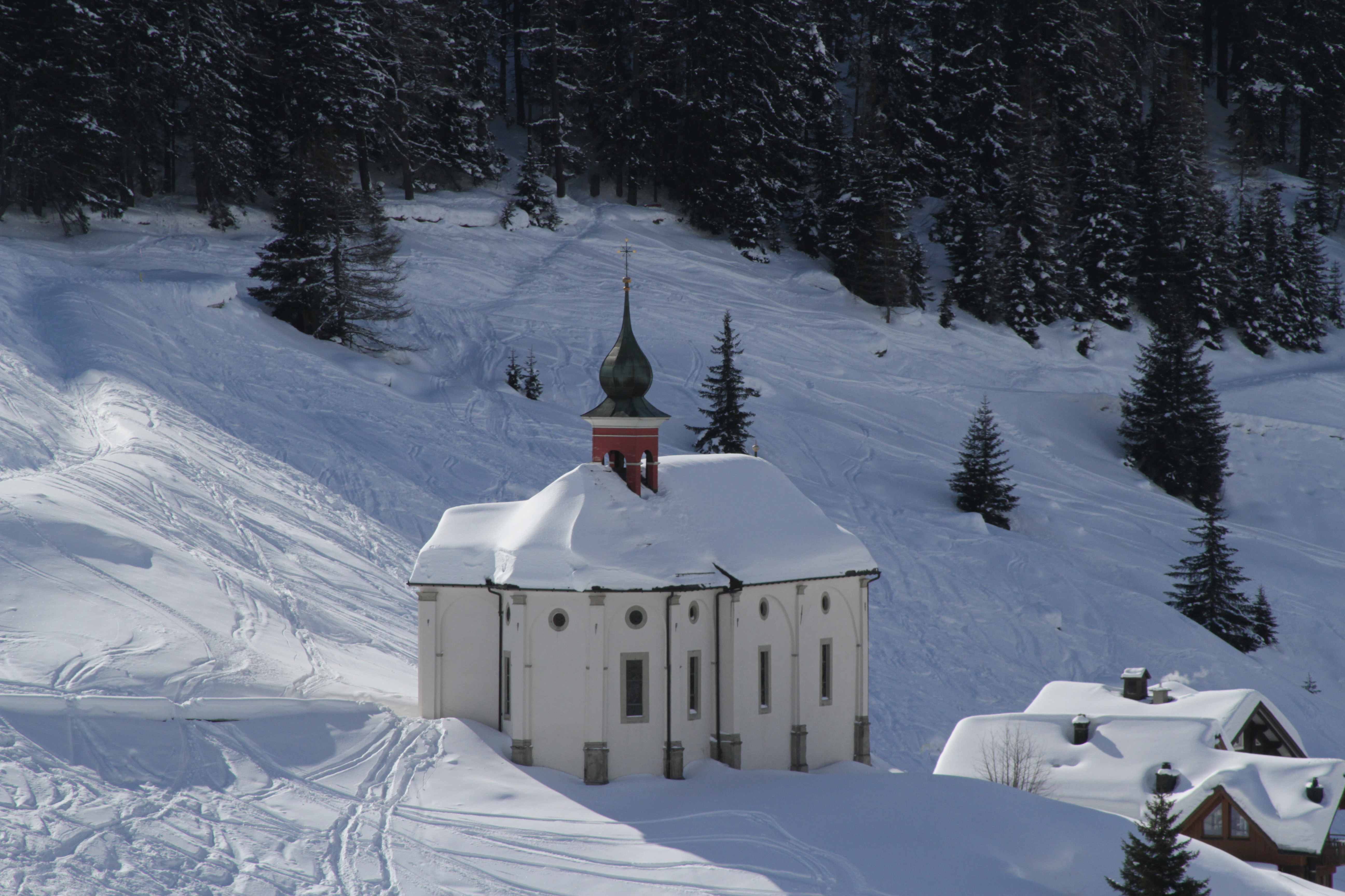 Kapelle Maria-Hilf